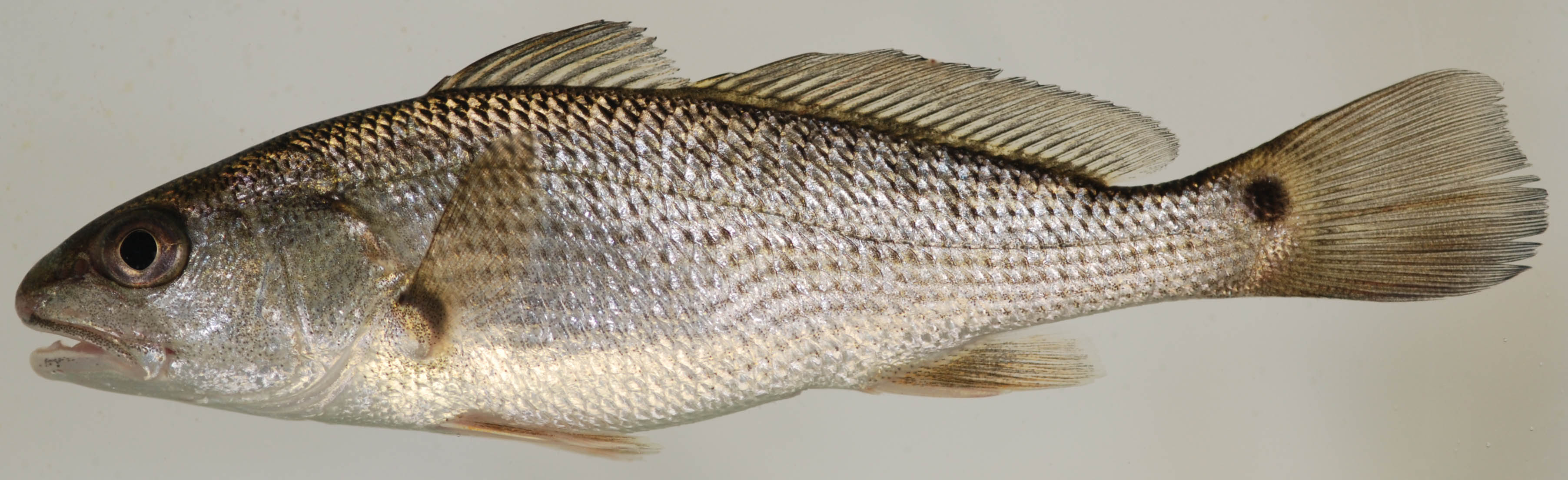 red drum, Sciaenops ocellatus, 110mm SL. Little Annemessex River, Somerset County, MD - 06/13/12. Photo by Robert Aguilar, Smithsonian Environmental Research Center.